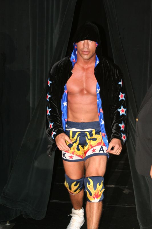 Kurt Angle in TNA. Kurt Angle fought Rhino at Final Resolution for a chance to face Jeff Jarrett. Kurt Angle won his third TNA World Heavyweight Championship in the King of the Mountain match.